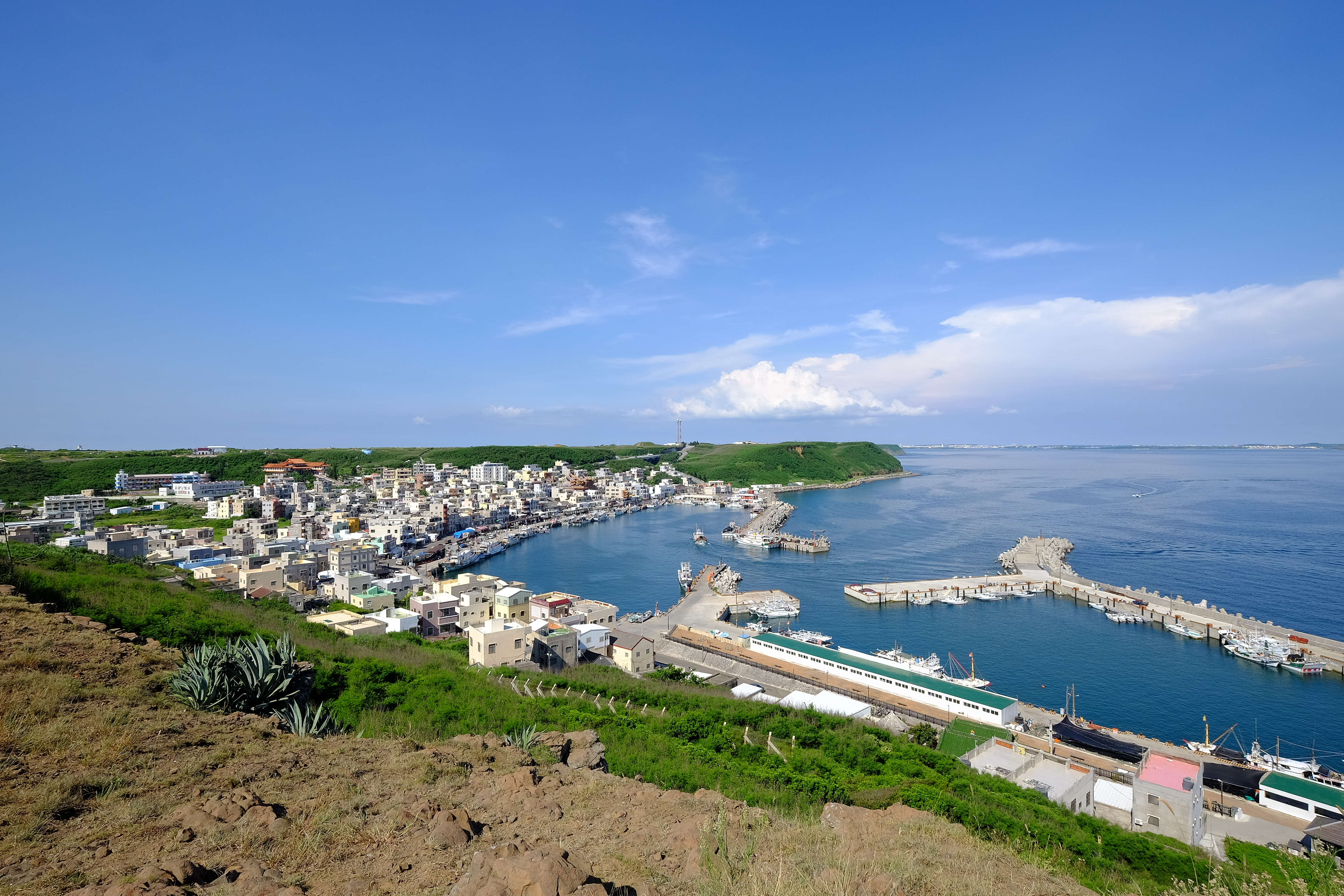 Overview of Wai'an Fishing Port.